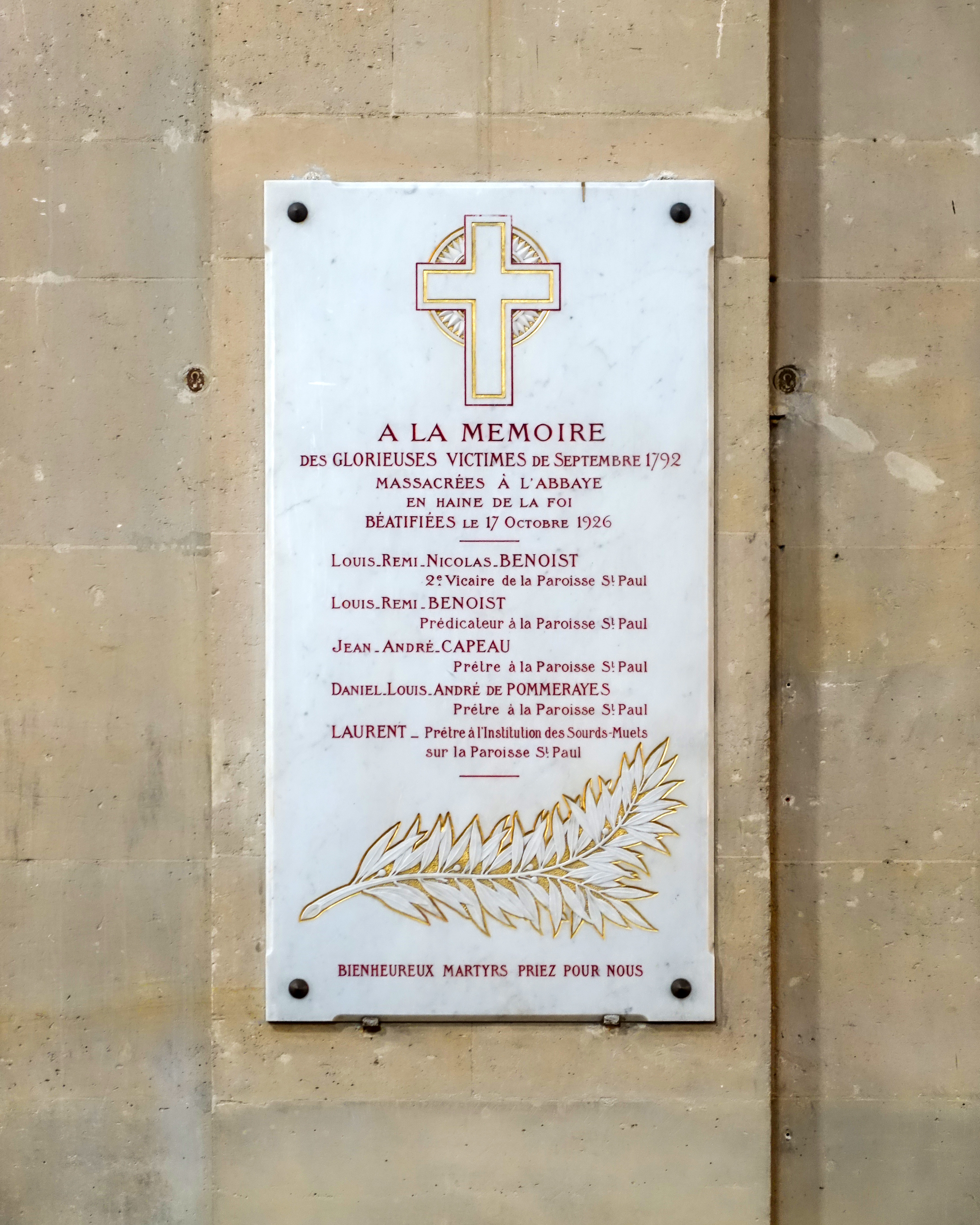 Église Saint-Paul-Saint-Louis, a church on rue Saint-Antoine in the Marais quarter of Paris, France.